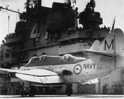 A Royal Australian Navy Fairey Gannet AS.1 of 816 Squadron from the aircraft carrier HMAS Melbourne (R21) aboard the U.S. Navy aircraft carrier USS Philippine Sea (CVS-47) in the South China Sea during exercise "Oceanlink", in May 1958.